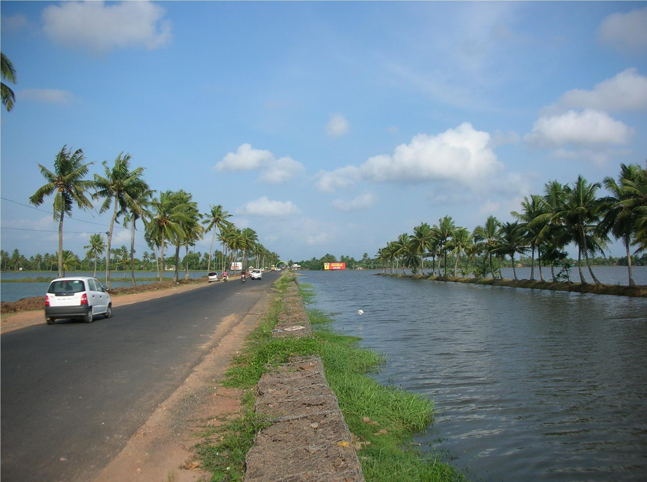 Alleppey Changanassery Road (SH-11)